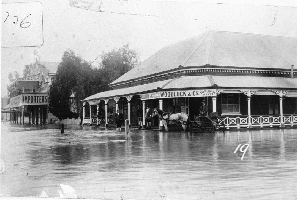 Woodlock's stock and station agent's office in the Goondiwindi floods of 1921. High waters rising at the corner of Marshall and Herberts Streets during the flooding of the Macintyre River, Goondiwindi. The building at right was earlier used as the Bank of New South Wales.l.